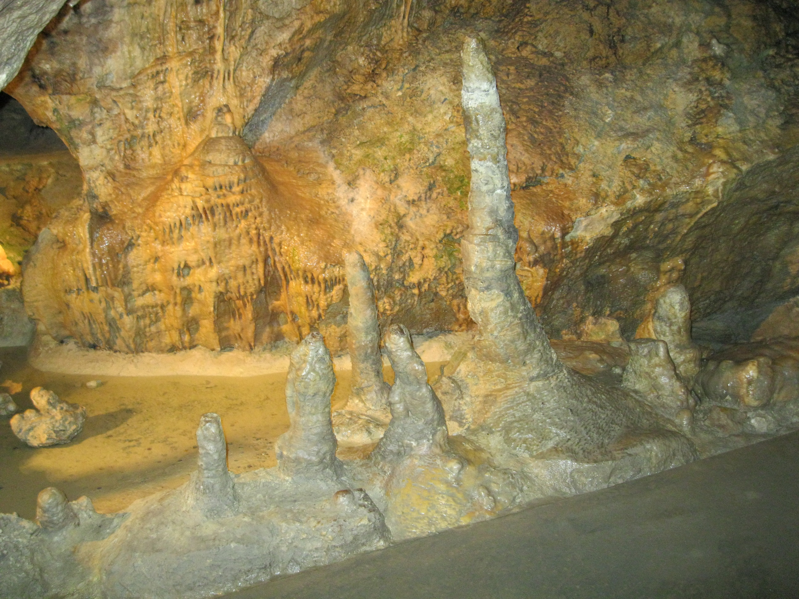 Snow White and the Seven Dwarfs (stalagmites) in the Pál-völgy Cave